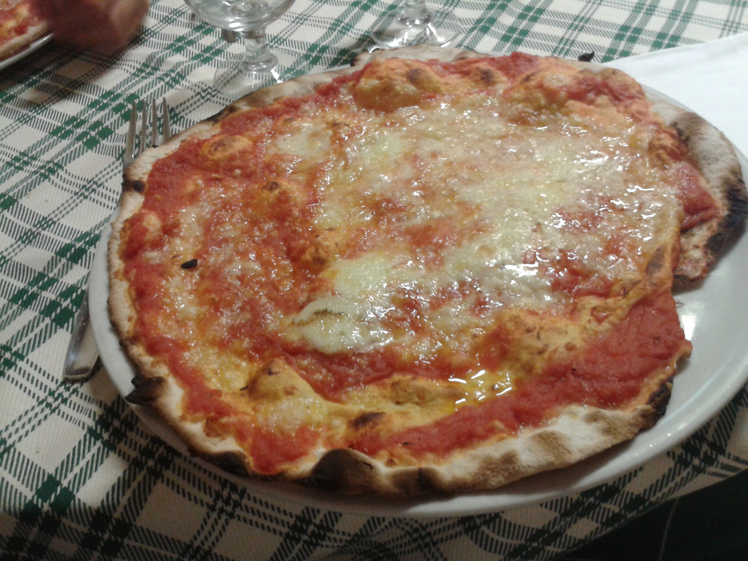 Pizza in Rome (pizzeria "Il Leoncino")